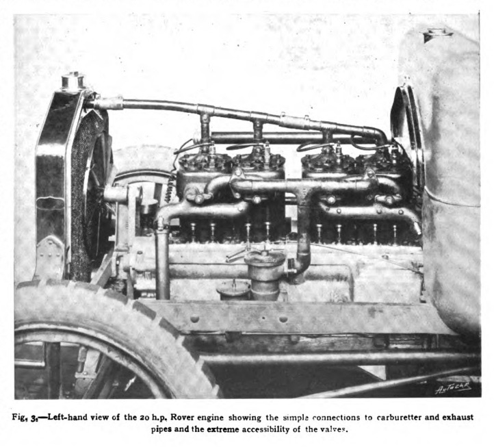 1907 Rover 20hp engine LHS